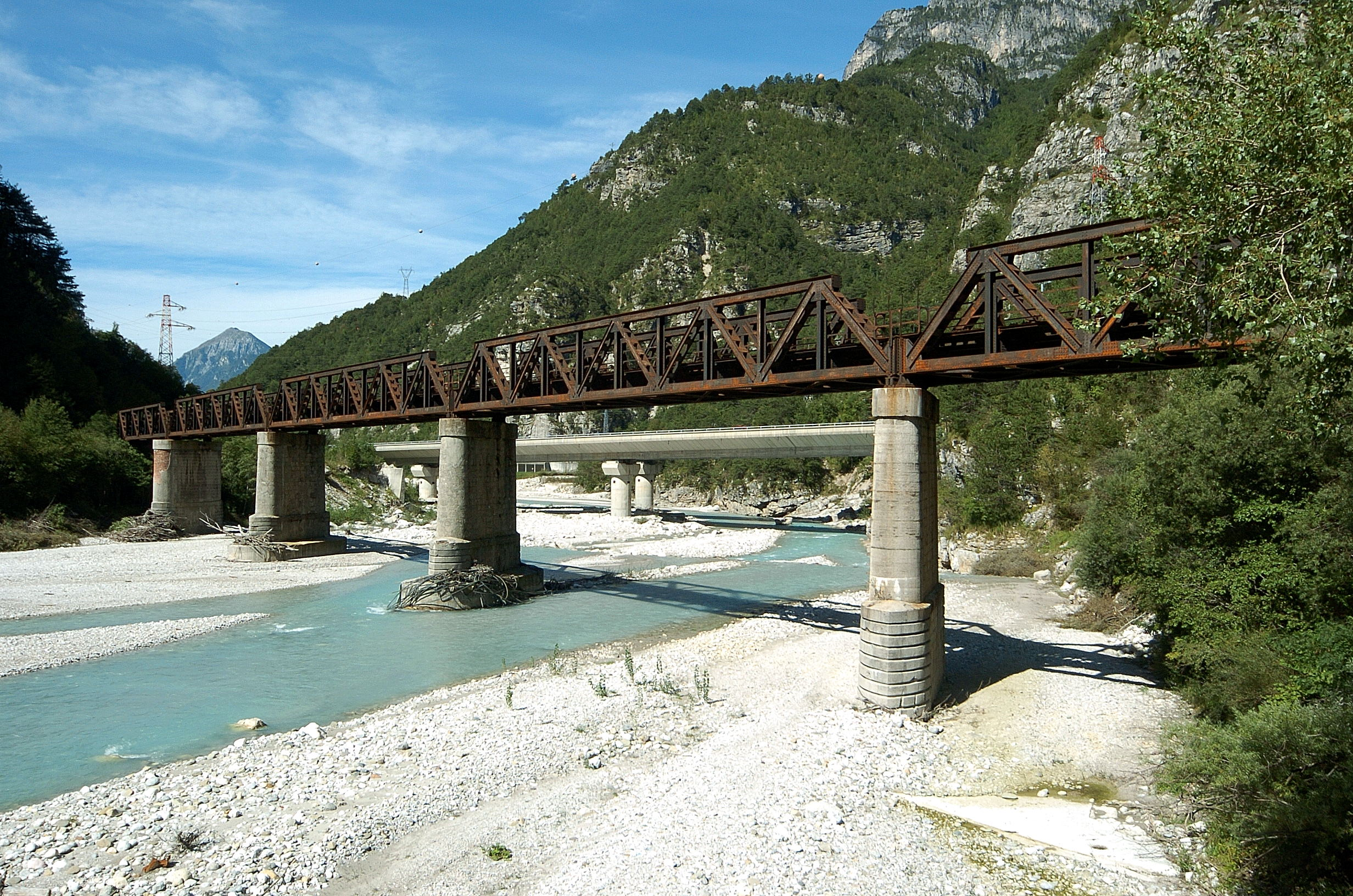 Railroad bridge across the river Fella, part of a defunct railroad line called the old "Pontebbana", in the north-eastern part of Italy, region Friuli Venezia-Giulia. In the background there are the two bridges of the Autostrada Alpe-Adria.